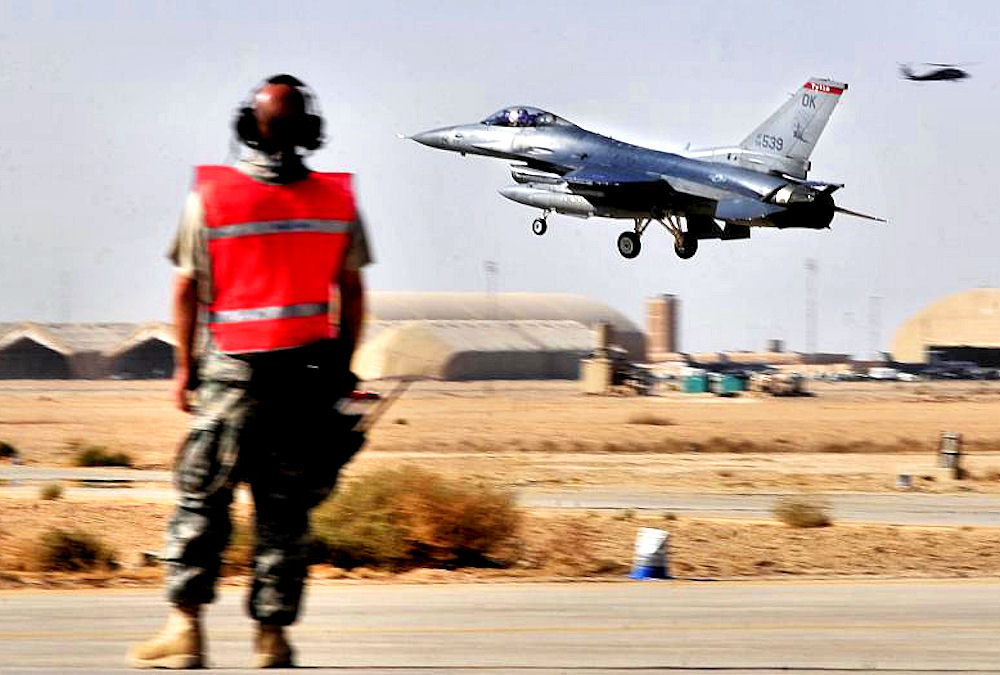 125th Expeditionary Fighter Squadron - General Dynamics F-16C Block 42D Fighting Falcon 88-0539 arrives in Iraq on October 4th, 2011. The squadron deployed in support of Operation New Dawn and will provide close air support for more than 40,000 troops leaving Iraq by the end of the year. [USAF photo by MSgt. Cecilio Ricardo]